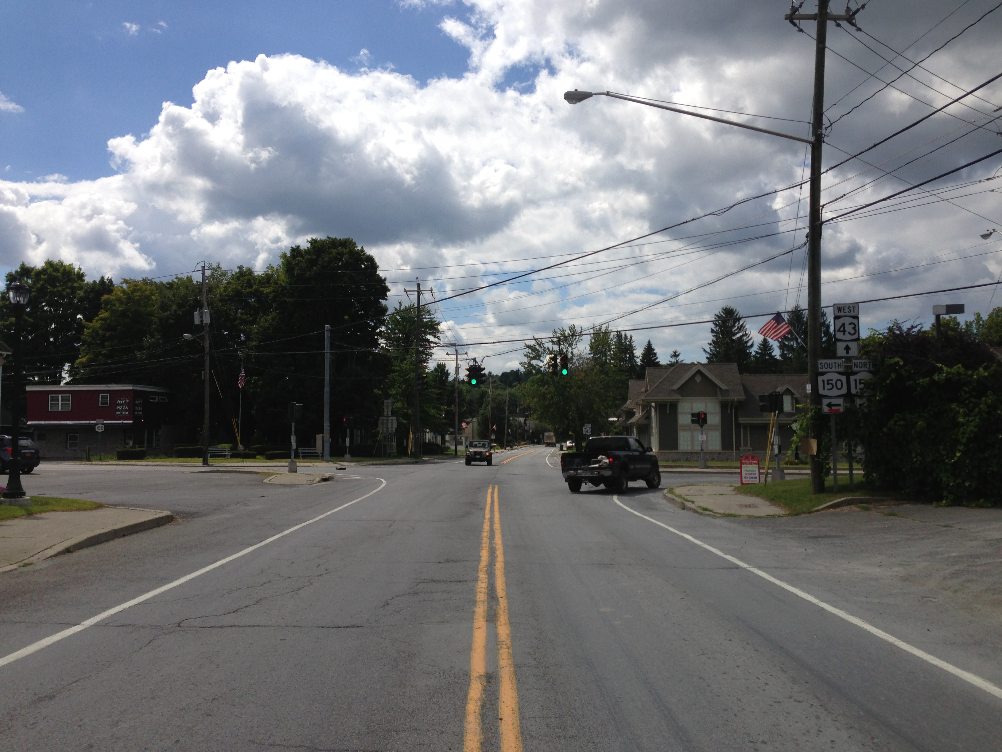 View west along New York State Route 43 at New York State Route 150 in the West Sand Lake section of Sand Lake, New York